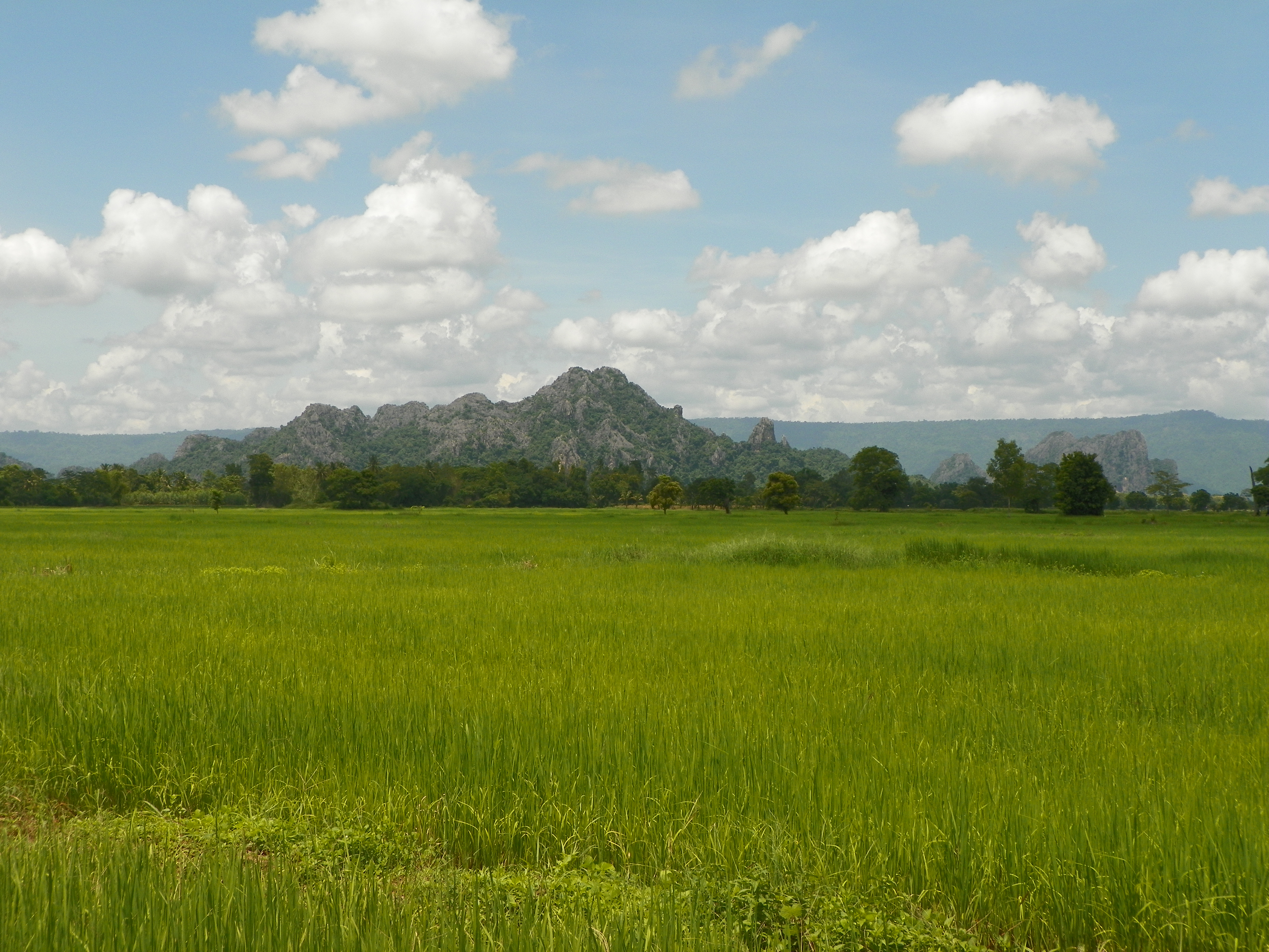 Pa That Phon mountain in Phitsanulok Province as seen from road 1344